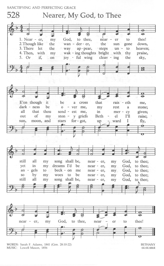 Nearer, My God, to Thee (sheet music)